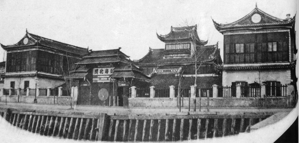 Imperial Maritime Customs House (first building) on the Shanghai's Bund.